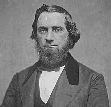 Thomas T. Davis, New York Congressman